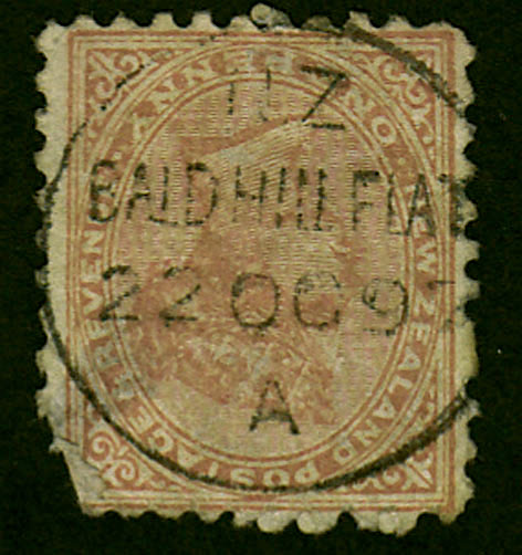 1897 postmark of Bald Hill Flat, New Zealand on 1882 1d rose stamp